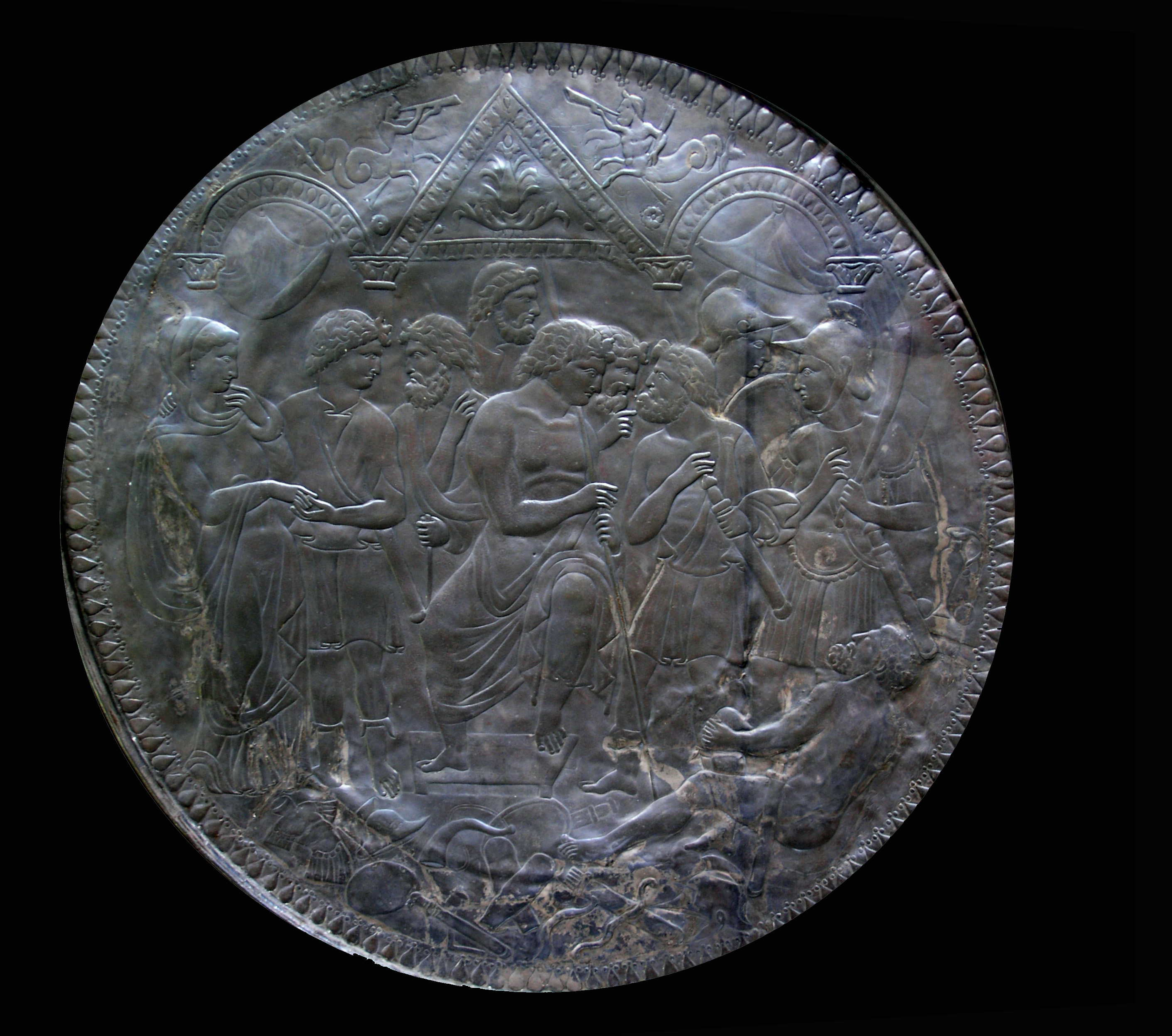 So-called Bouclier de Scipion (“Scipion's shield”) or Plat d'Achille (“Achilles' plate”): Patroclus leads Briseis outside the tent where Achilles is stting. Silver missorium (one of the biggest known), end 4th or beginning of 5th century.